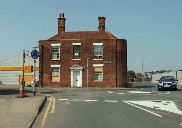 'The Swan' public house at Hythe This pub appears to be no longer in use.